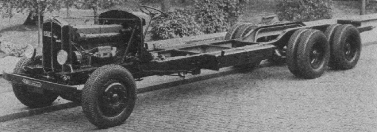 Renault VT truck frame, pictured 1932